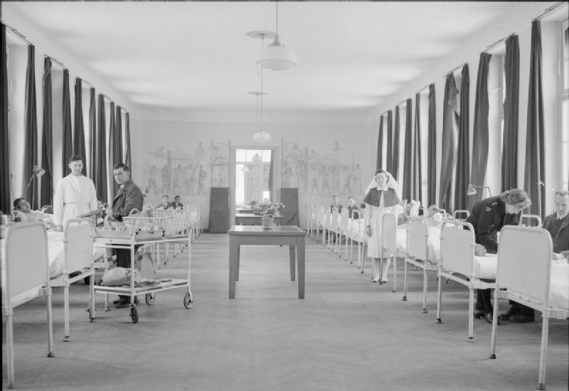 Royal Air Force Medical Services, 1939-1945. A view of one of the wards at No. 8 RAF General Hospital in Brussels, with Sister I Crossley of Rotheram in attendance (second right).